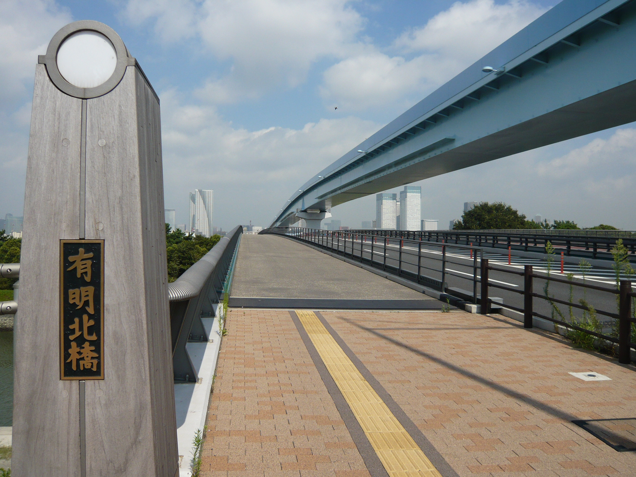 Ariake North Bridge(有明北橋) in Koto-ku,Tokyo,Japan.